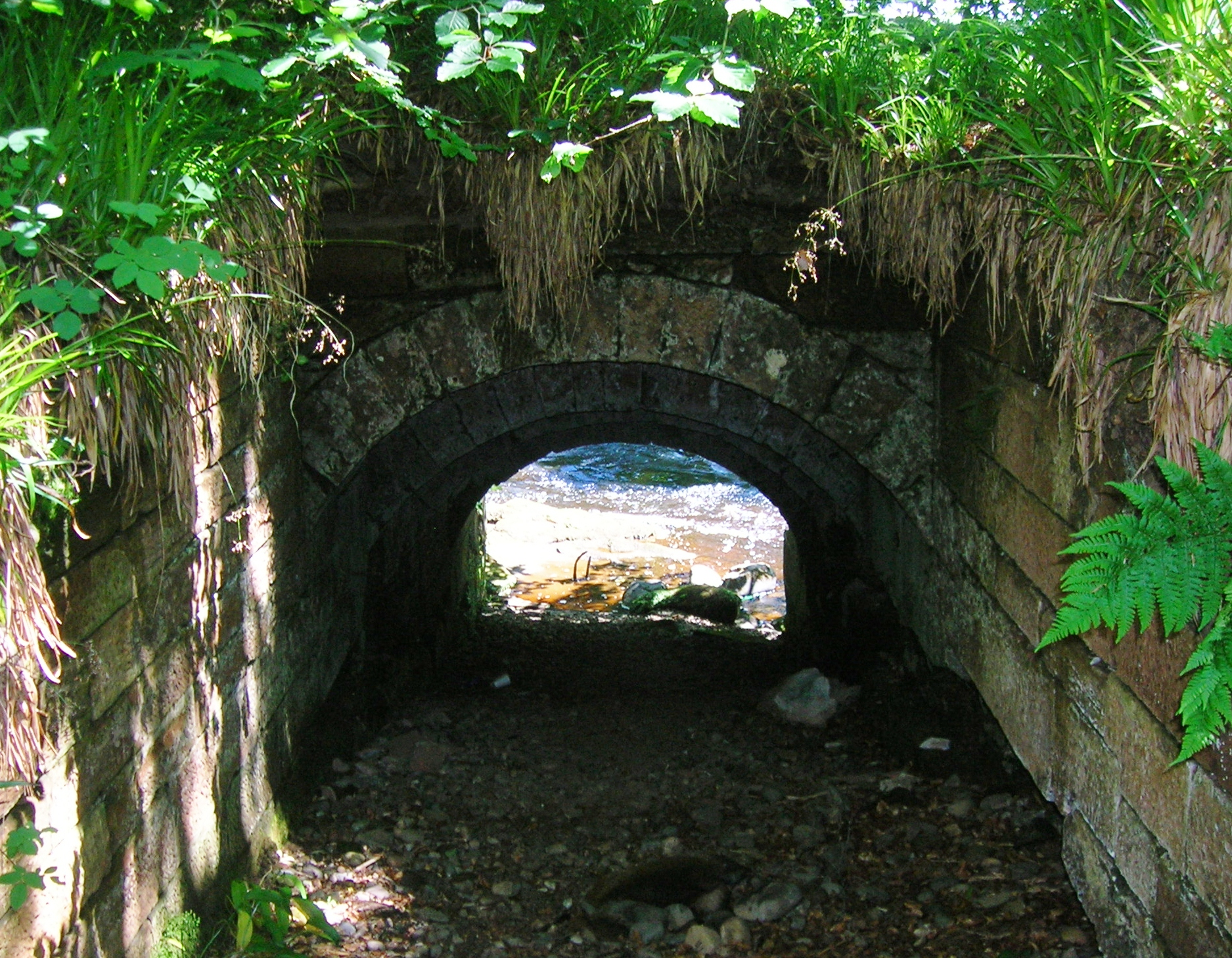 River Ayr - bridge and lade inflow near Kingen Cleugh Glen, East Ayrshire, Scotland